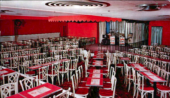 Postcard of the interior of the now defunct Jockey Club in Atlantic City, NJ. There are no copyright marks on the card.